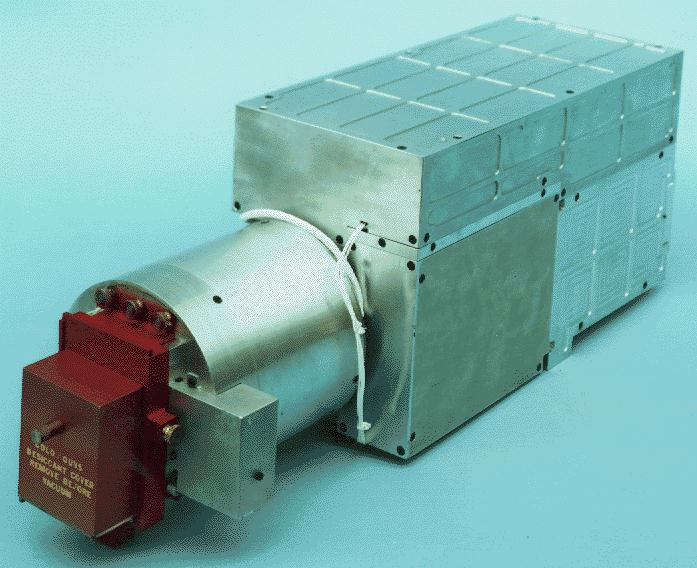 Photo of the Ultraviolet Spectrometer (UVS) instrument that was incorporated into the Galileo spacecraft.